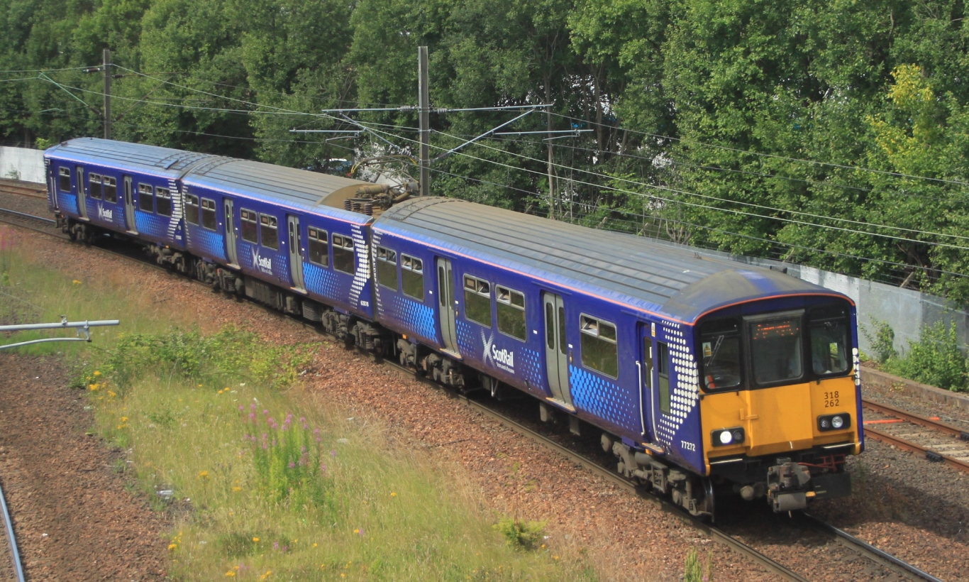 Abellio ScotRail's refurbished electric unit 318262 approaches Hyndland station with a North Clyde Line service across Glasgow.